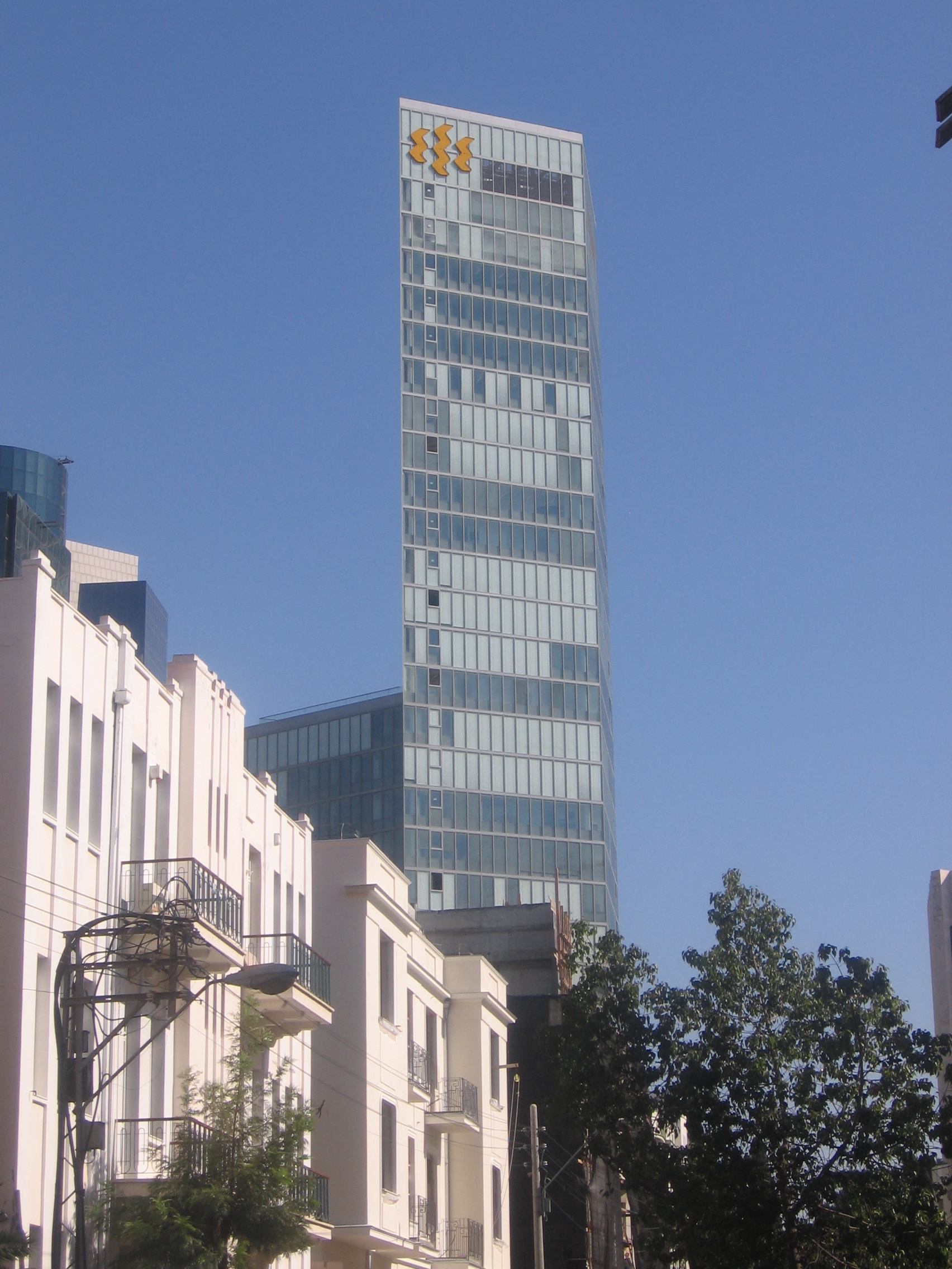 The "First International Bank" tower in Tel Aviv.